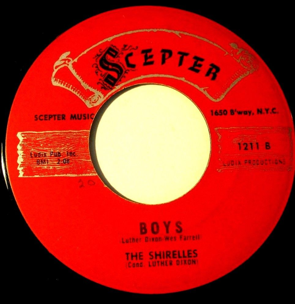 The Shirelles: Boys, composed by Luther Dixon and Wes Farrell, released in November 1960